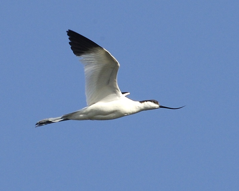 Pied Avocet (Recurvirostra avosetta)